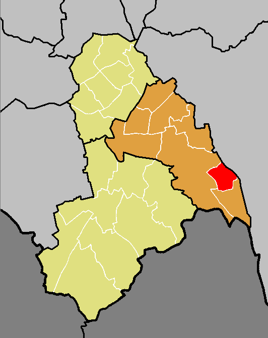 The ward of Fieldway (red) shown within the Croydon Central constituency (orange) within the London Borough of Croydon (yellow).